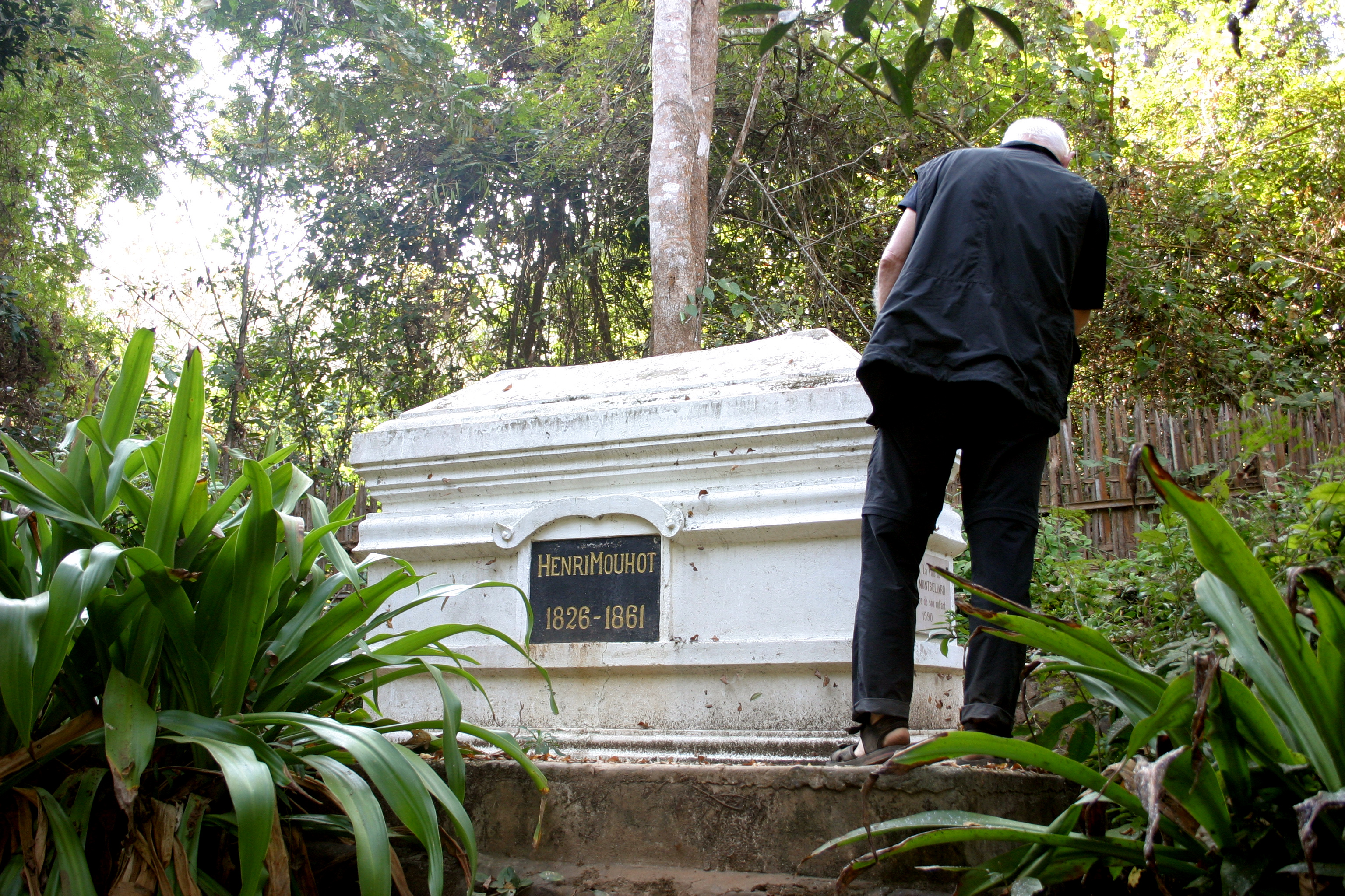 Grave of Henri Mouhot in Ban Phanom in Laos.